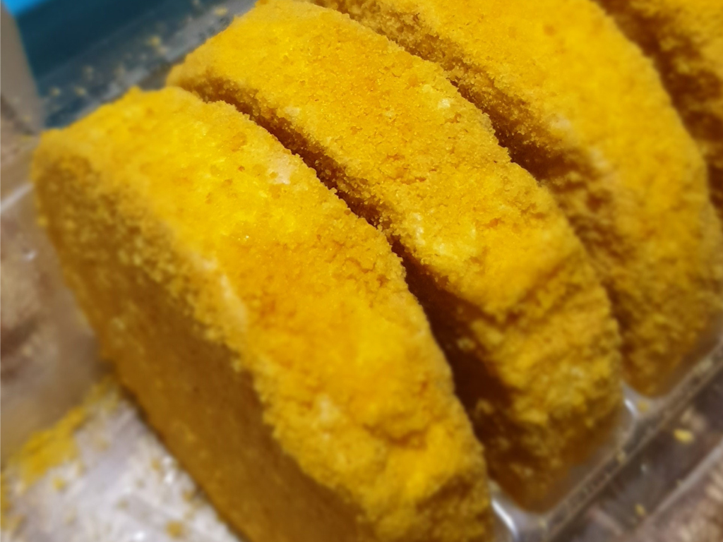 Close-up of commercial silvanas, a Filipino buttercream and meringue cookie.